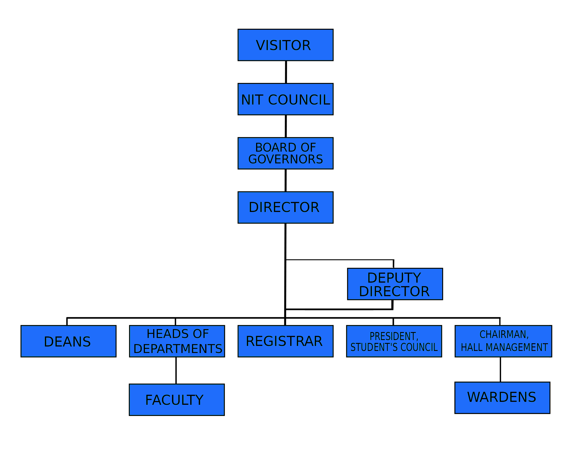 Organisational structure of the National Institutes of Technology